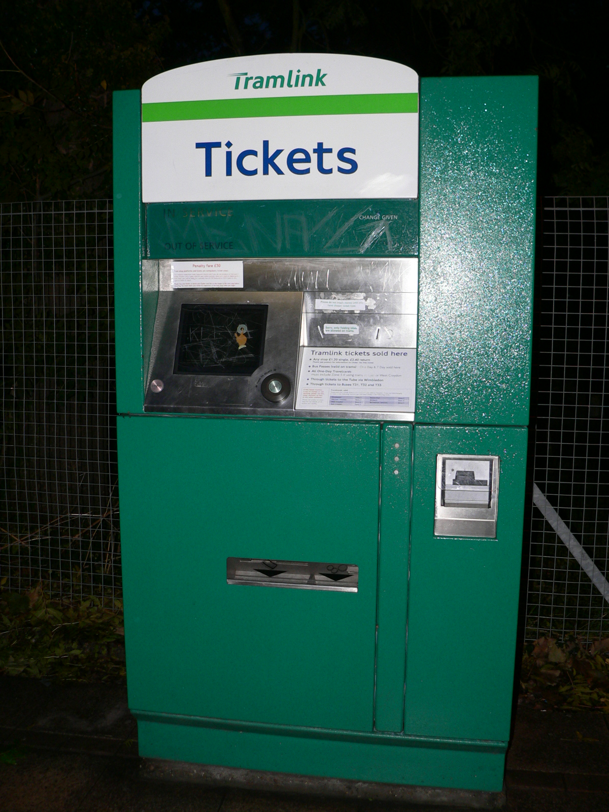 A Tramlink ticket machine, photographed at Birkbeck station on Line 2.